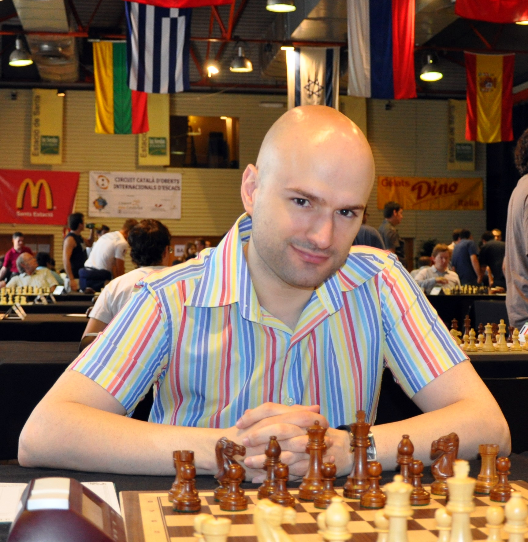 GM Marc Narciso Dublan (Spain), XII Open Internacional de Sants, Hostafrancs i la Bordeta Grup A, Barcelona 2010